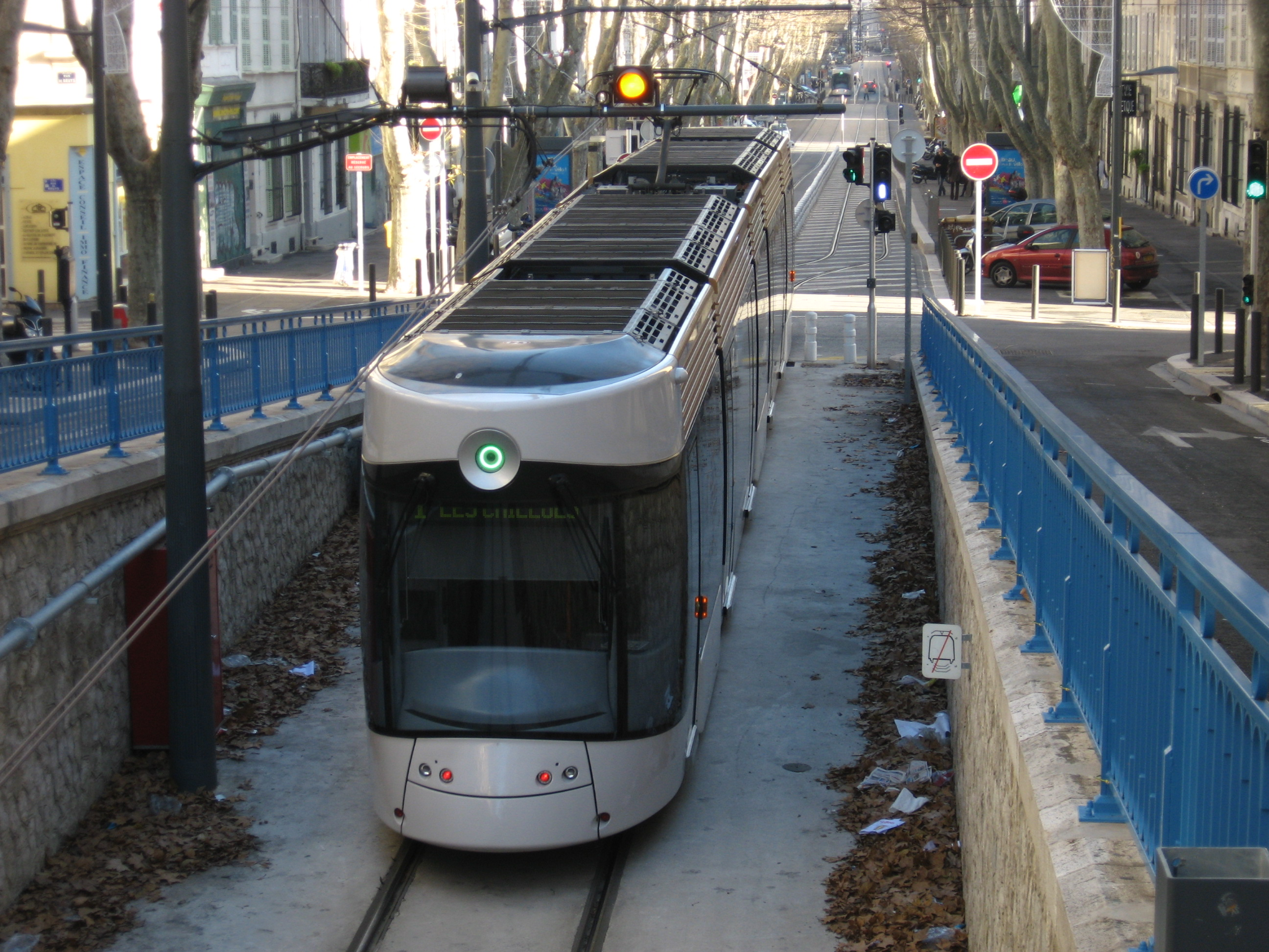 Tram T1 leaving tunnel. Tunnel is single track